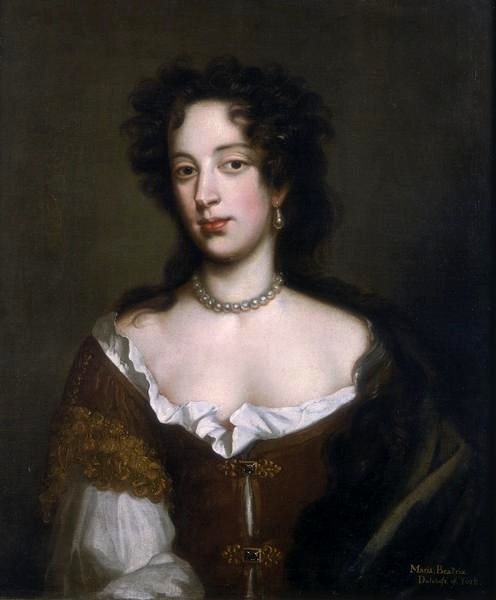 Portrait of Mary of Modena (1658-1718), Queen to James II, she is portrayed here when she was Duchess of York.